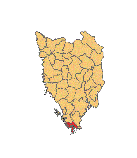 Medulin's map